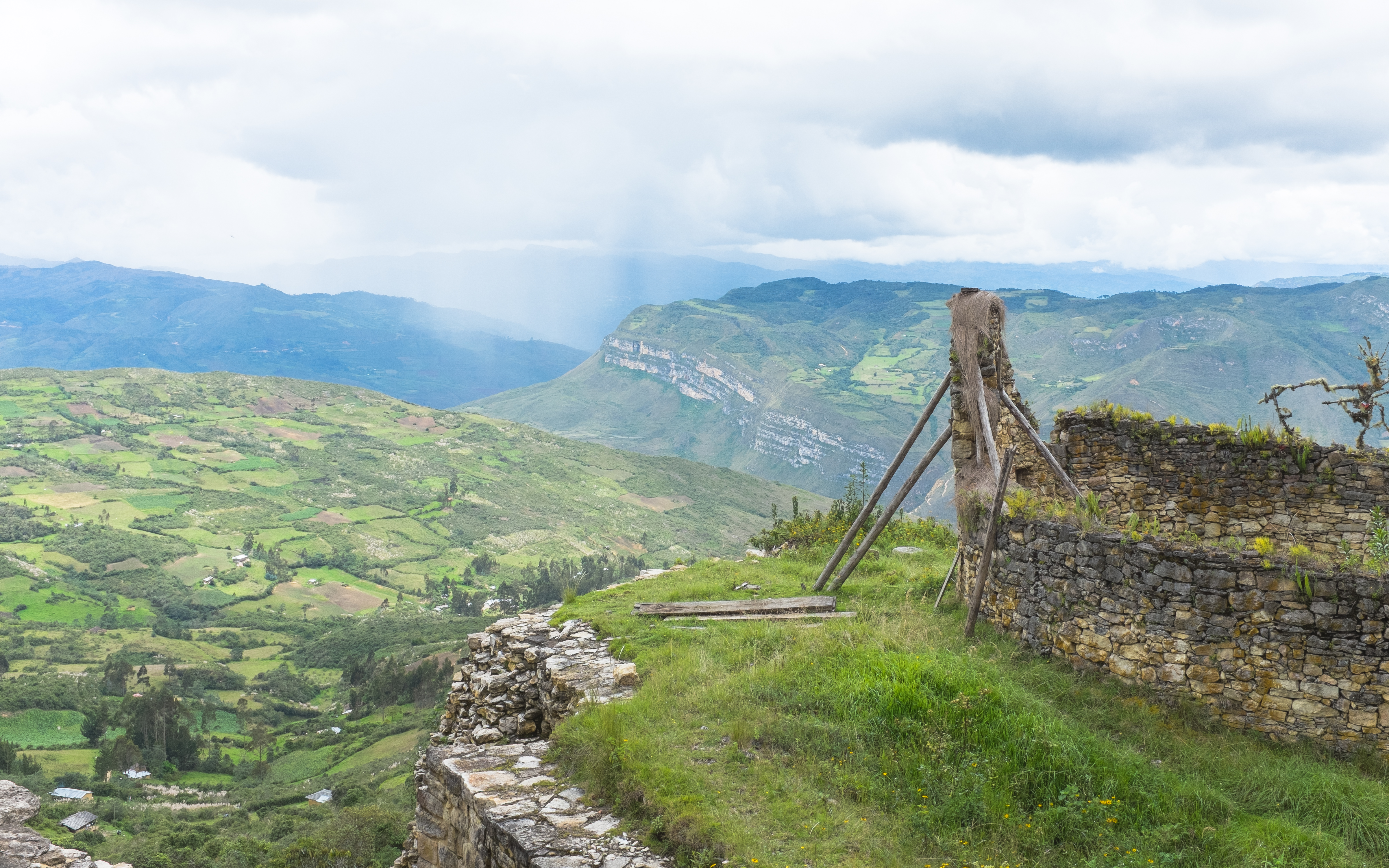 View from the Kuelap fortress.